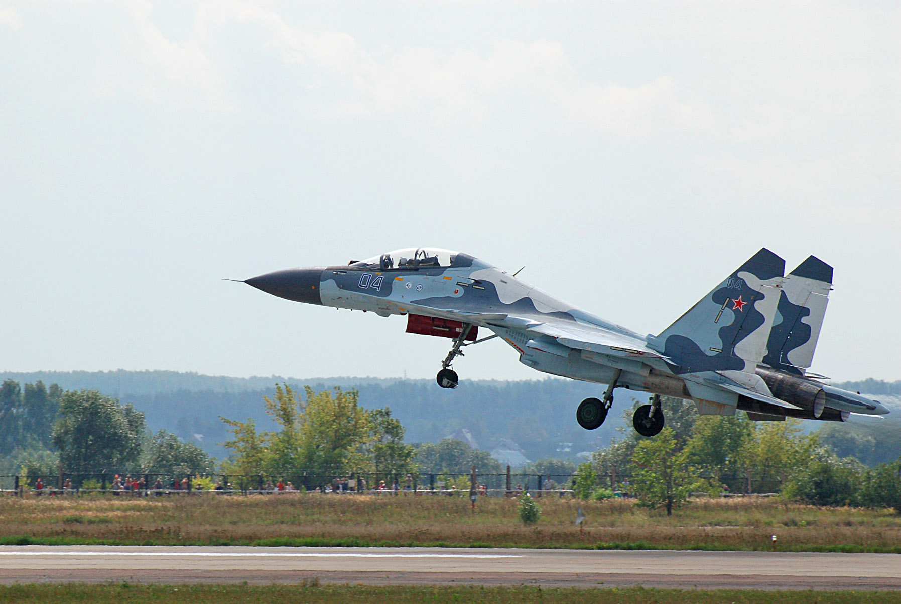 Су-30МКМ on launch (the international aerospace salon MAKS-2007)